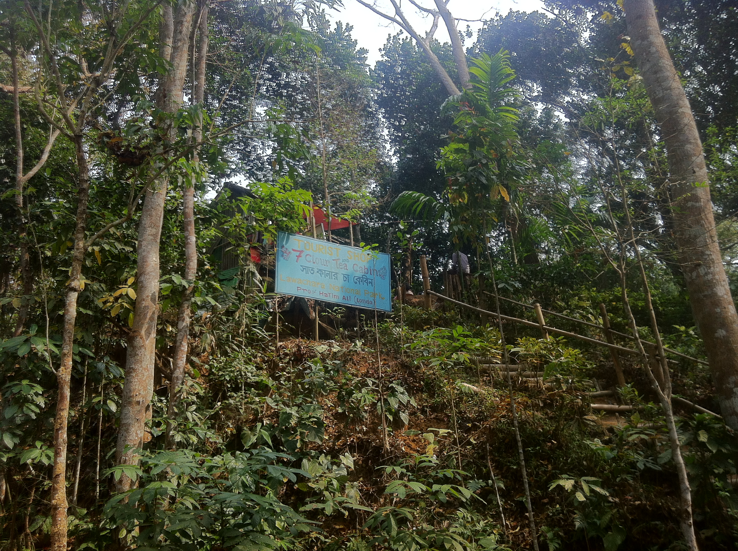 7 colour tea cabin at Lawachara